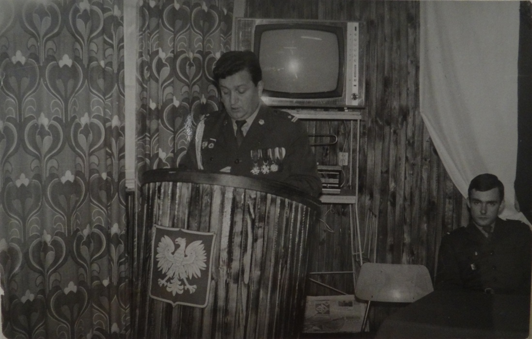 Garnizon Stargard, 1975r. Zastępca dowódcy 45 Batalionu Medycznego ds. politycznych mjr Zygmunt Gospodarek